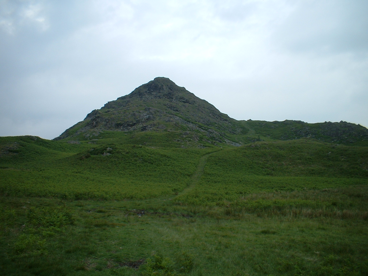 Stickle Pike, Lancashire, as viewed from the continuing ridge to Great Stickle. Photograph by Jonathan Hopkins 2006.